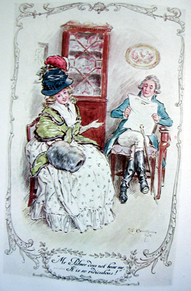 Ch 19 of Sense and Sensibility, (Jane Austen Novel) Mrs Palmer and her husband : "He is so ridiculous !"